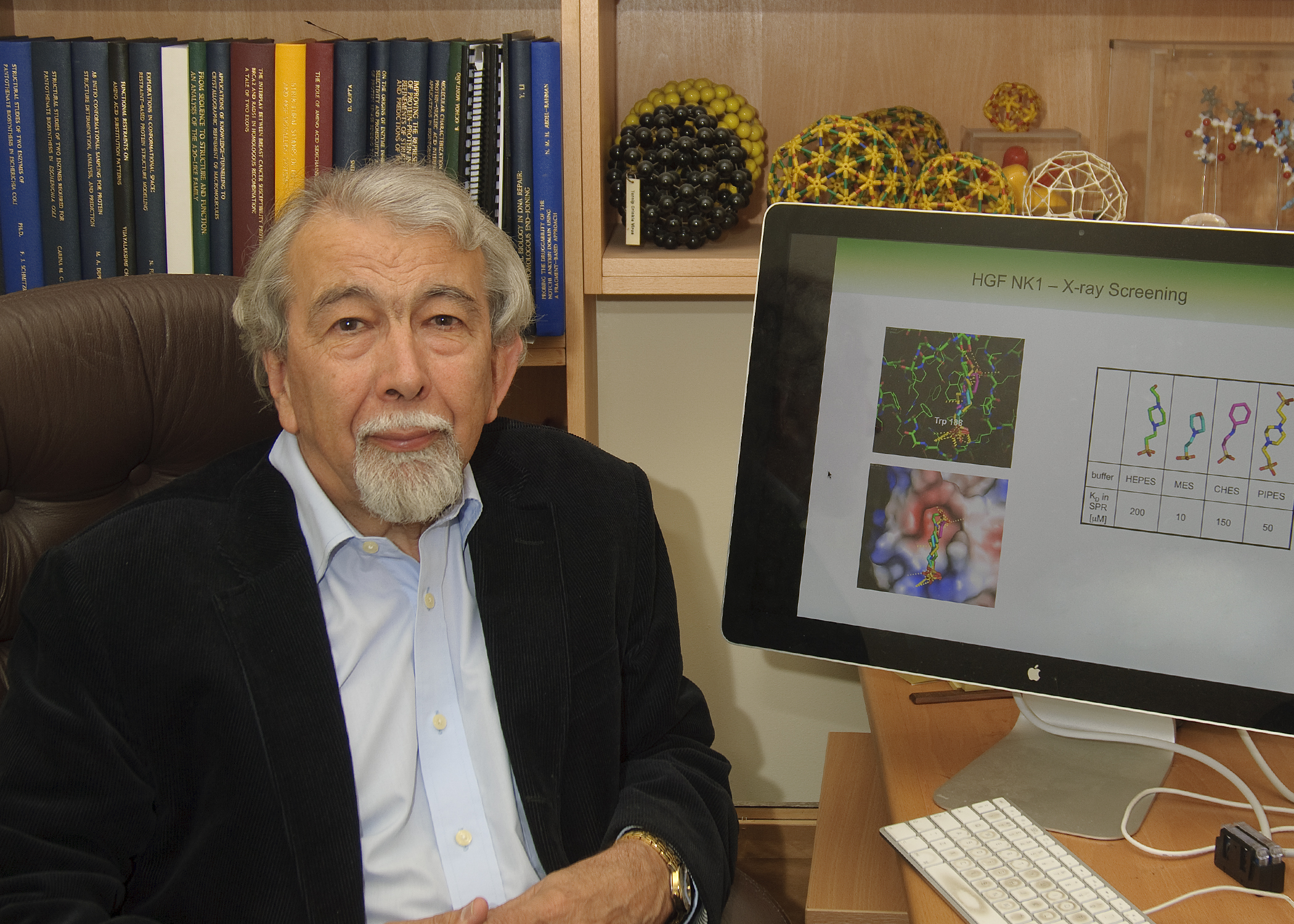 Sir Tom Blundell in his office in 2012, with models of virus and small-molecule structures on the shelf and images from a drug-discovery process on the computer screen. Photo by Photography & Graphics, Department of Biochemistry, University of Cambridge, UK.